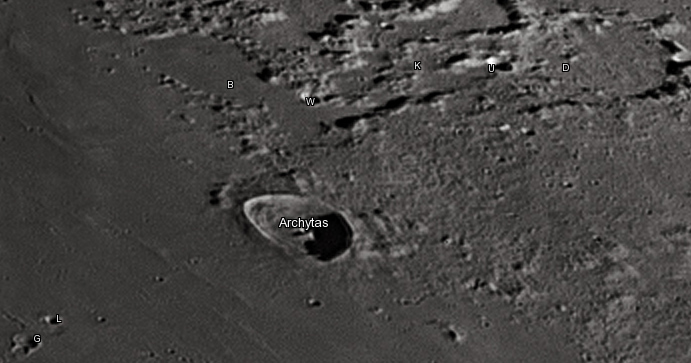 Archytas lunar crater as seen from Earth with satellite craters labeled